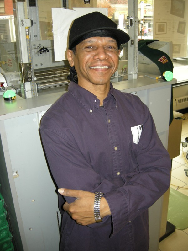 Photo of Trevor Von Eeden